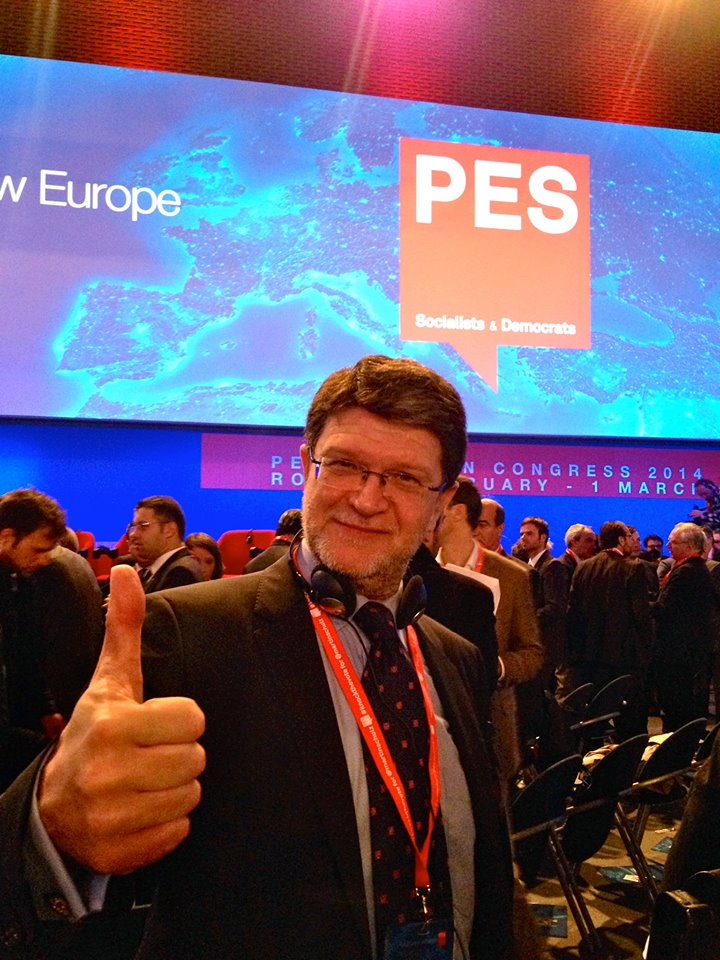 Croatian MEP Tonino Picula at PES Conference in Rome where Martin Schultz was confirmed as Socialist candidate for the President of the EU Commission